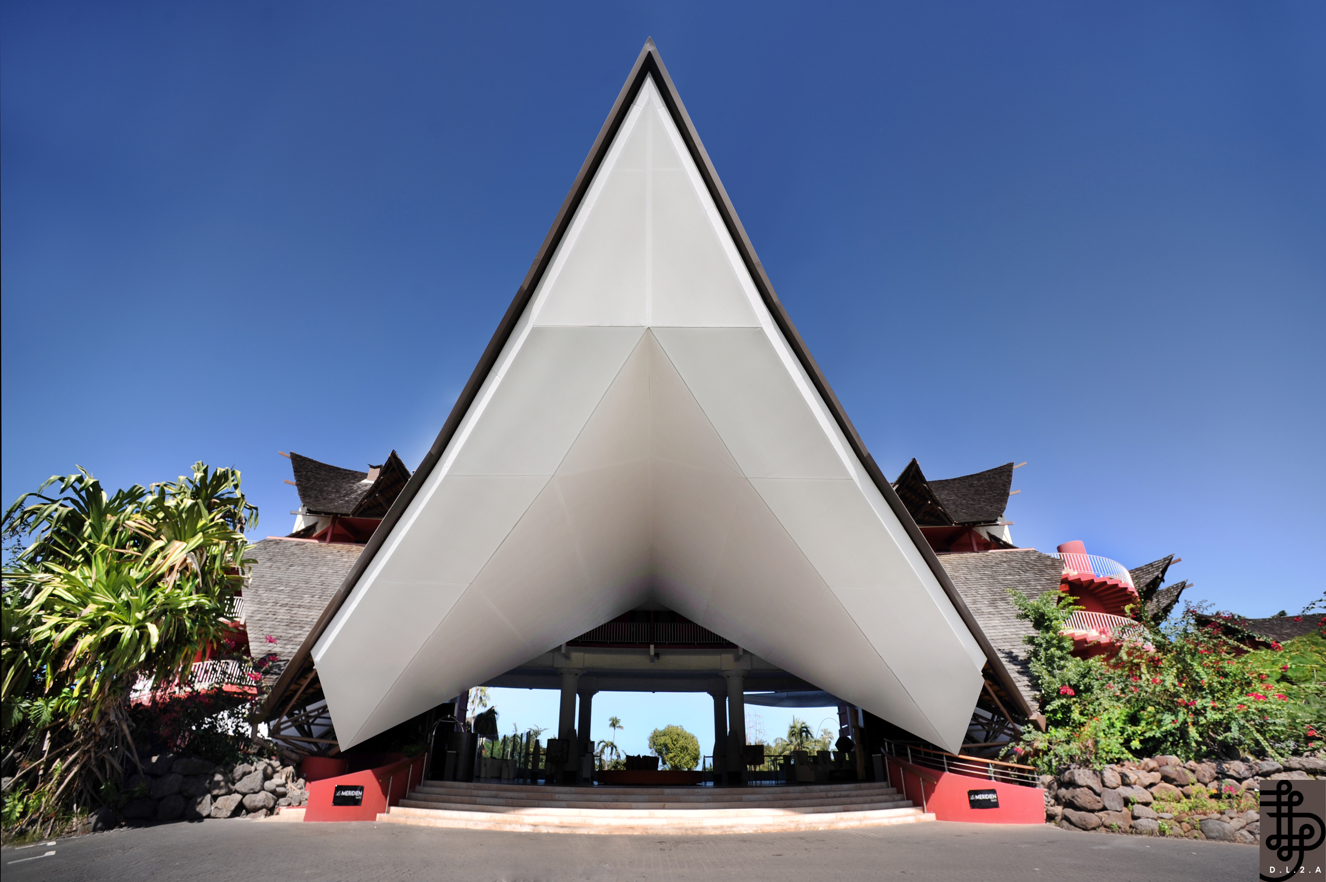 DL2A Le Meridien Tahiti